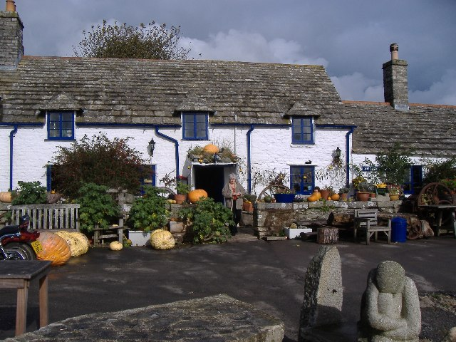 Square and Compass, Worth Matravers. Just after the annual Pumpkin Festival